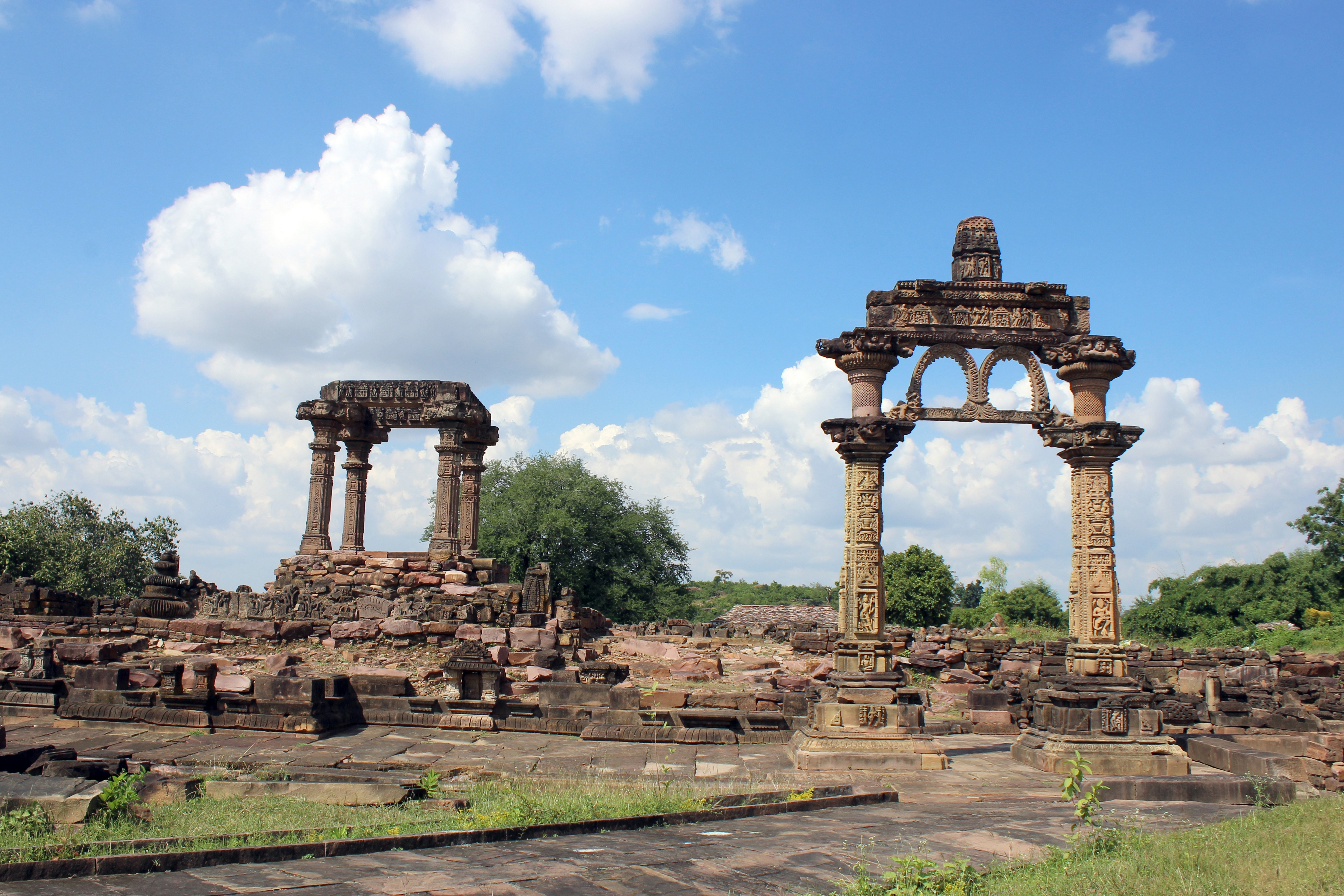 Hindola torans